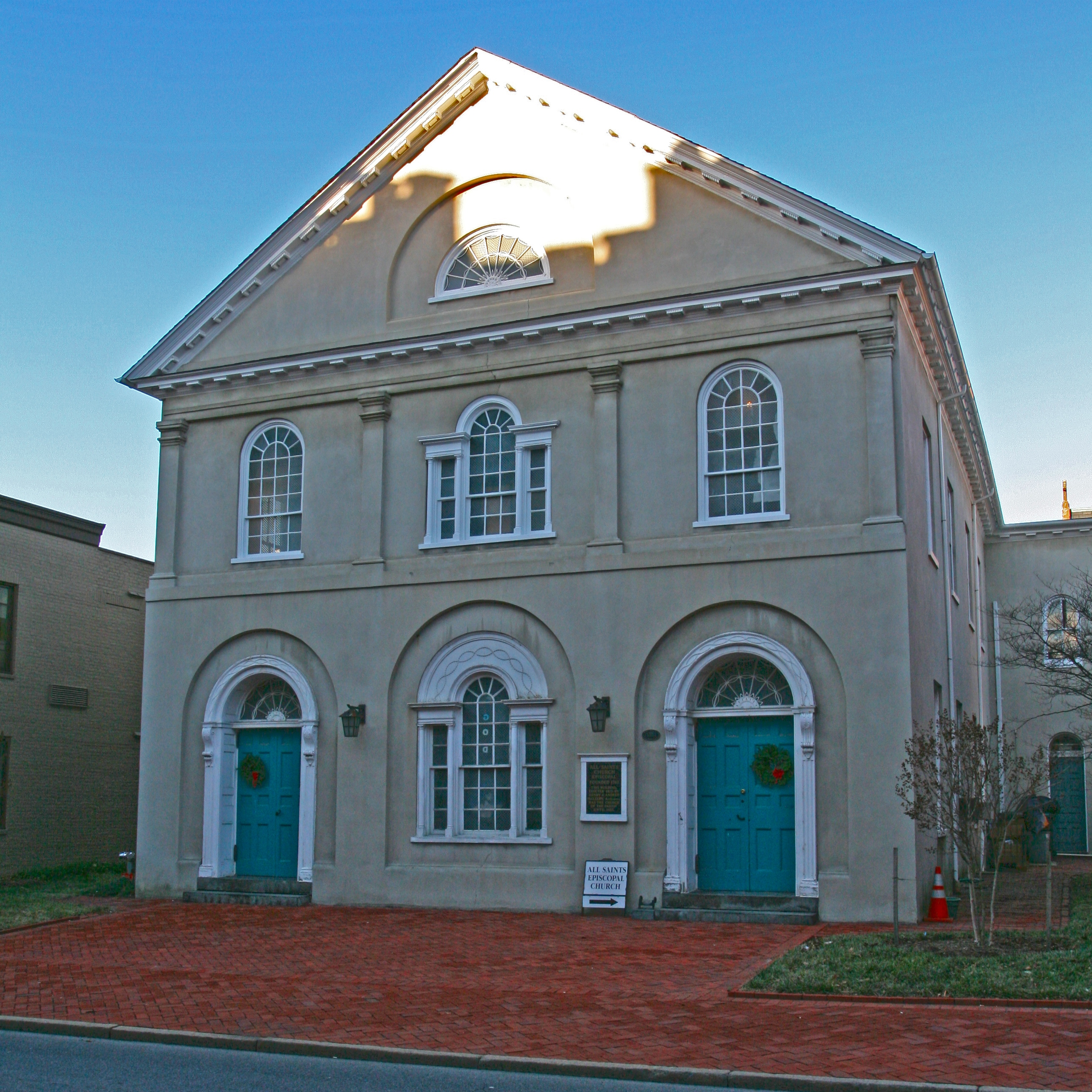 The Court Street facade of the 1814 Federal styled All Saints' Episcopal Church in Frederick, Maryland.